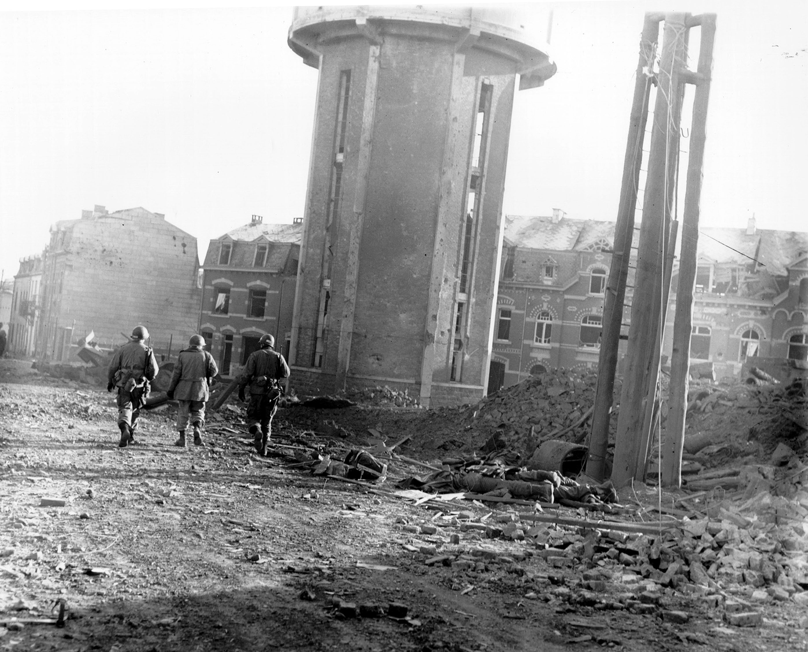 Members of the 101st Airborne Division walk past dead comrades, killed during the Christmas Eve bombing of Bastogne, Belgium, the town in which this division was besieged for ten days. This photo was taken on Christmas Day, 1944.